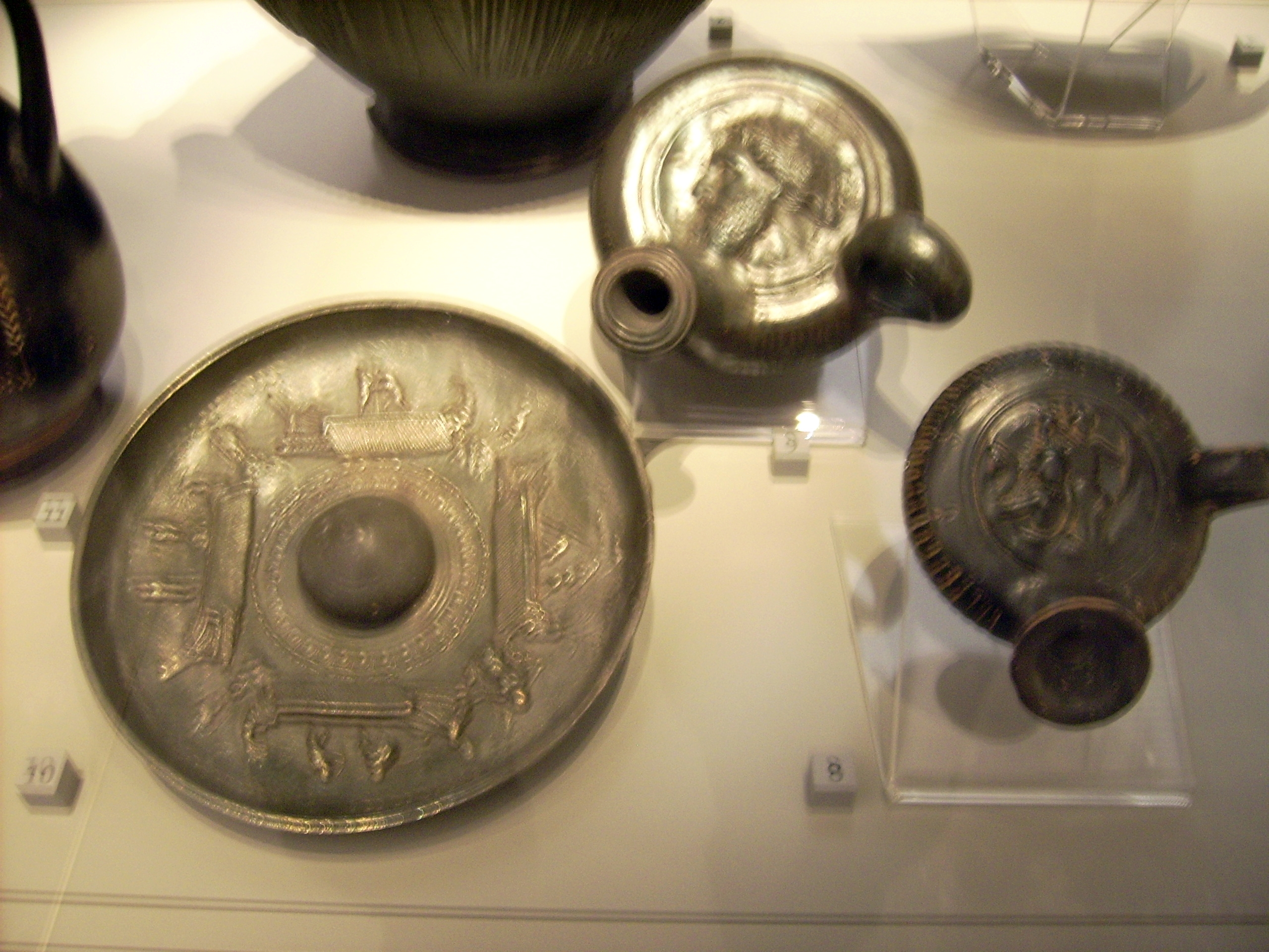 Calenan pottery phiale: four ships of Odysseus; from Vulci, ca. 290/80 B.C. Italican black-gaze Guttos with relief medaillon; 3rd century B.C.